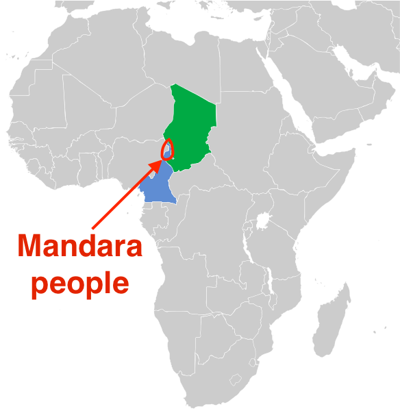 An approximate geographic distribution of the Mandara people of Mandara Sultanate in Central Africa (Cameroon, Nigeria and Chad). This is a derivative work on the wikimedia file: File:CAR-Chad-CameroonLocator.svg